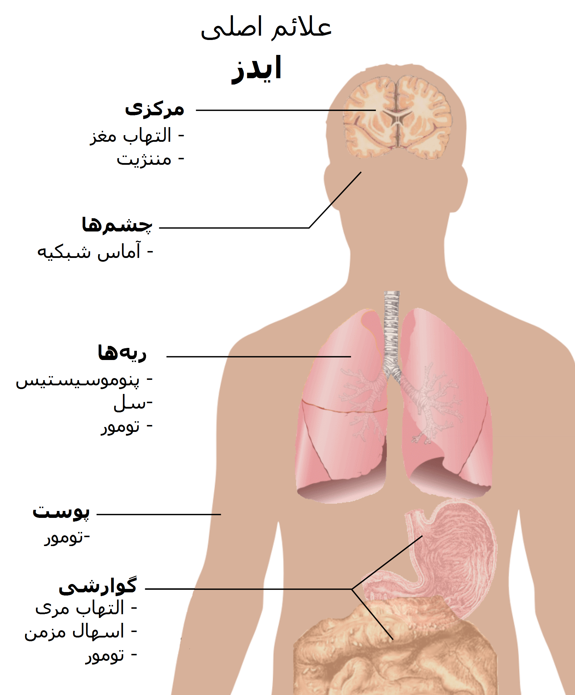 Main symptoms of AIDS, as described in the Wikipedia:AIDS article.